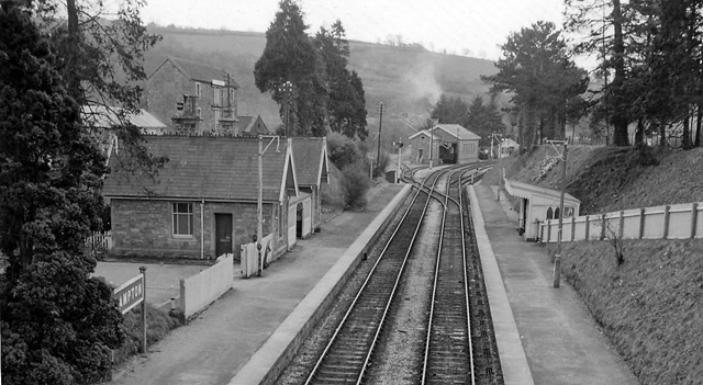 Bampton Station, Near to Bampton, Devon, Great Britain. View southward towards Exeter, on branch from Dulverton and Tiverton, closed 7/10/63 (north of Stoke Canon).